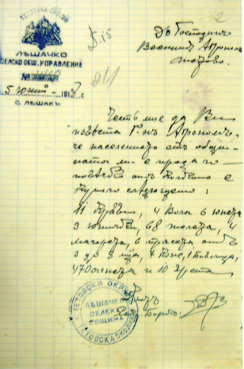 Document stamped by Leshochkata rural municipal administration by June 5, 1918. This media file is produced by Wikipedian in Residence in Category:Wikipedian in Residence at DARM in 2016.